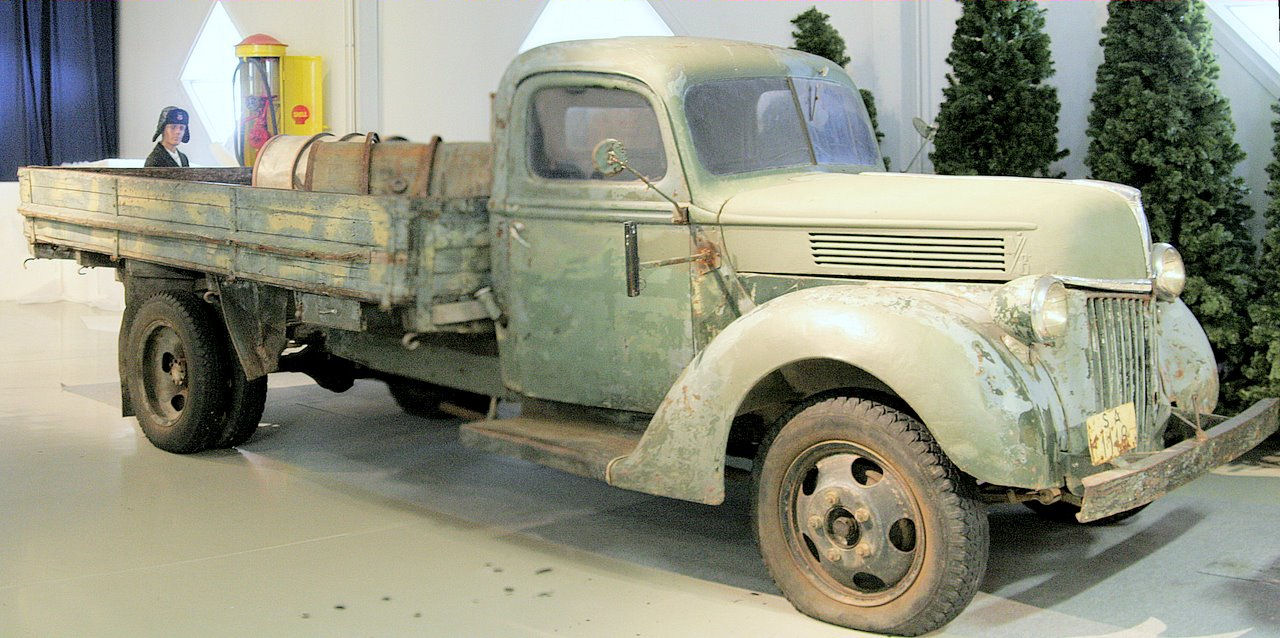 Photograph: Ford 099 T V8, year model 1940 Truck: A 1941 registered Finnish WW2 military truck during in the automobile and road museum Mobilia, Kangasala of Finland, 3rd March, 2007 Built: 1940